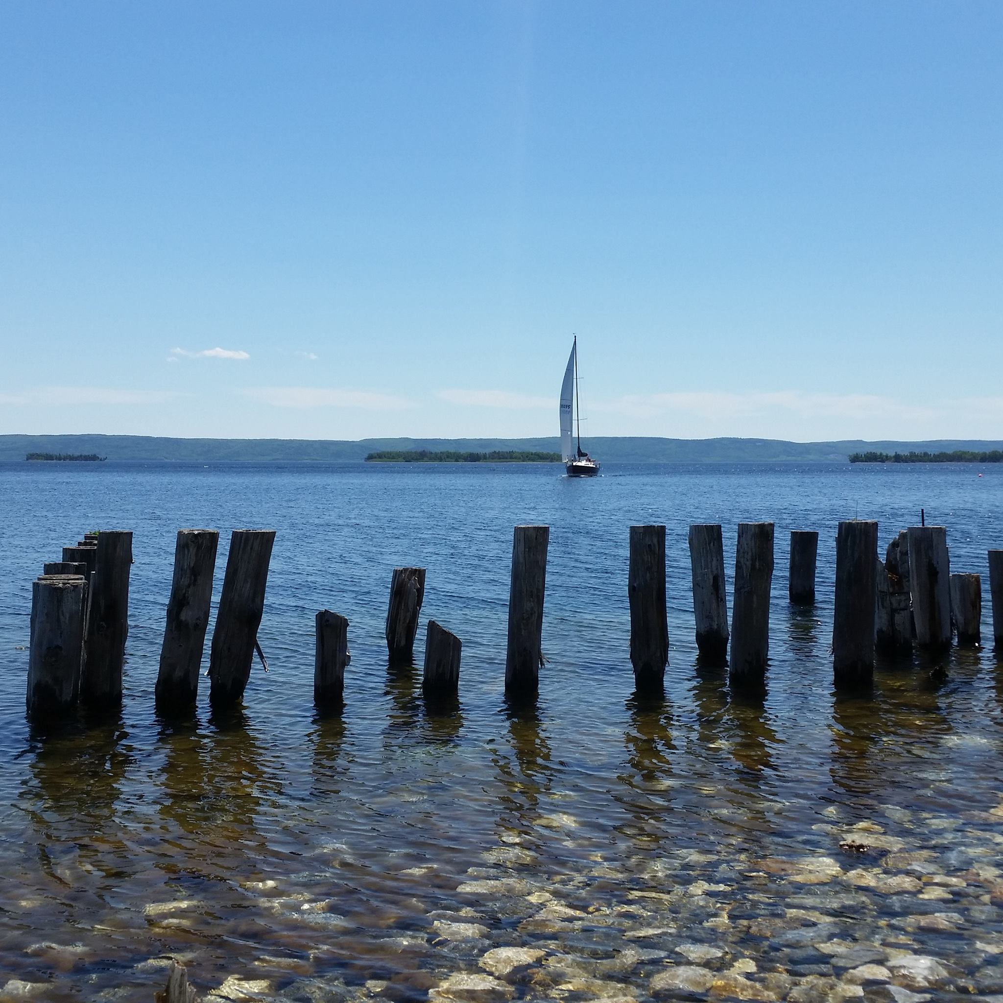 Bras d'Or Lakes, West Bay